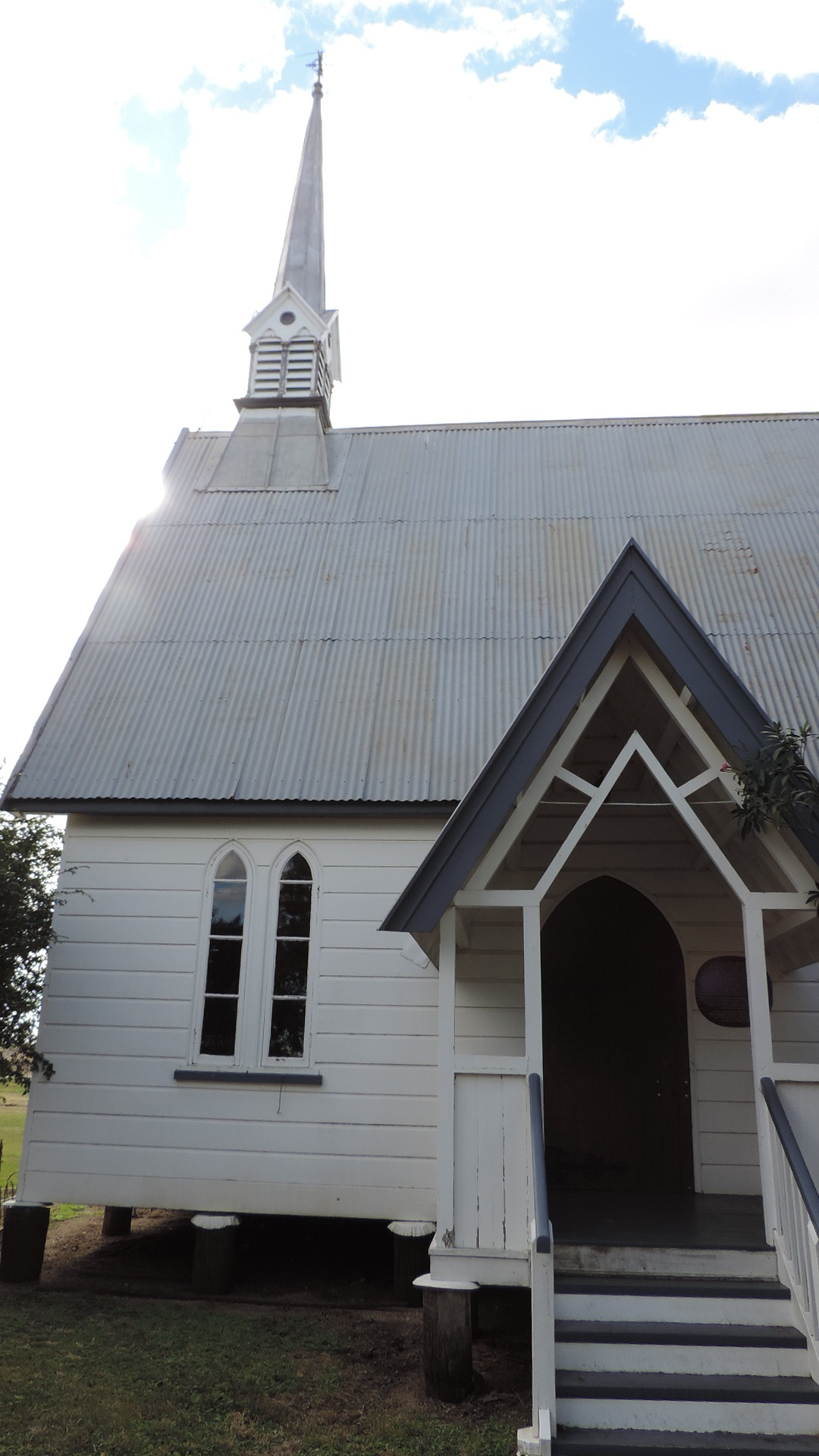 All Saints Anglican Church, Yandilla (2015), entrance porch and steeple